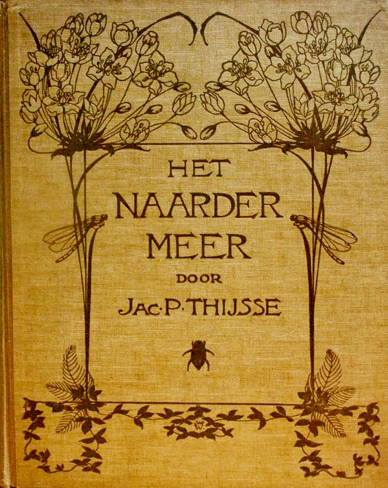 Het Naardermeer (Thijsse 1912), cover